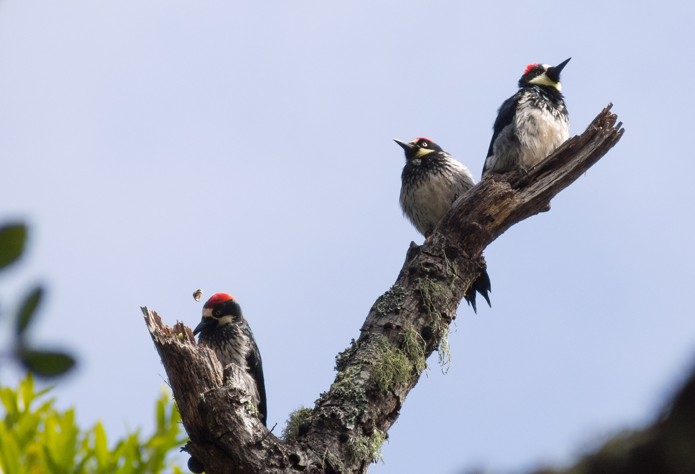 Acorn woodpeckers (Melanerpes formicivorus) in a tree on Angel Island (California).